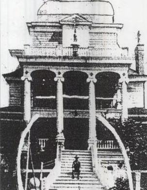 Devereux Mansion ca 1875 at one time belonging to John Henry Devereux